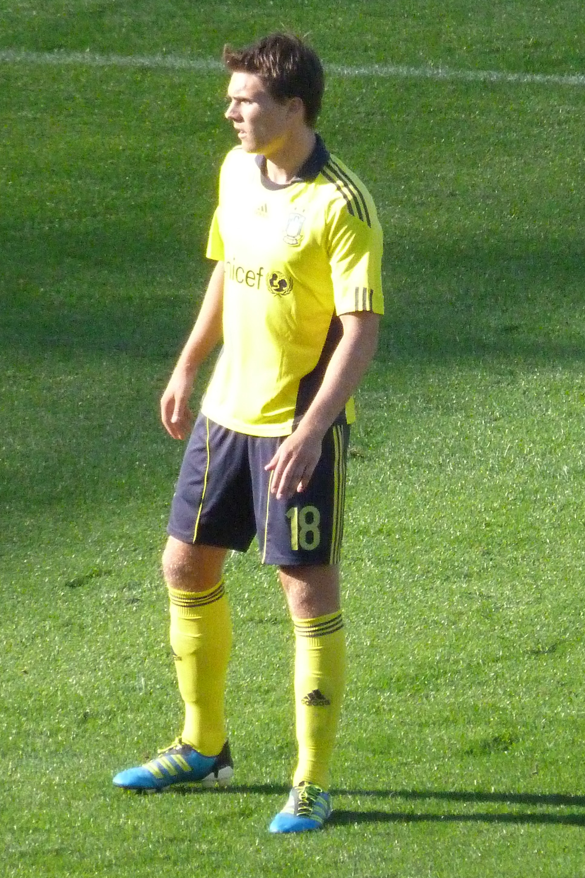 Nicolaj Agger Player from Bröndby IF